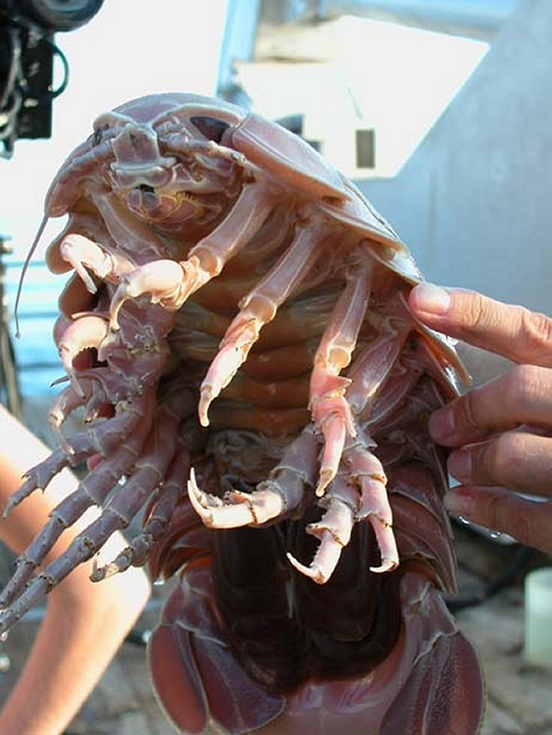 The "charismatic" deep sea crustacean, Bathynomis giganteus. Gulf of Mexico. 2005 September 2.